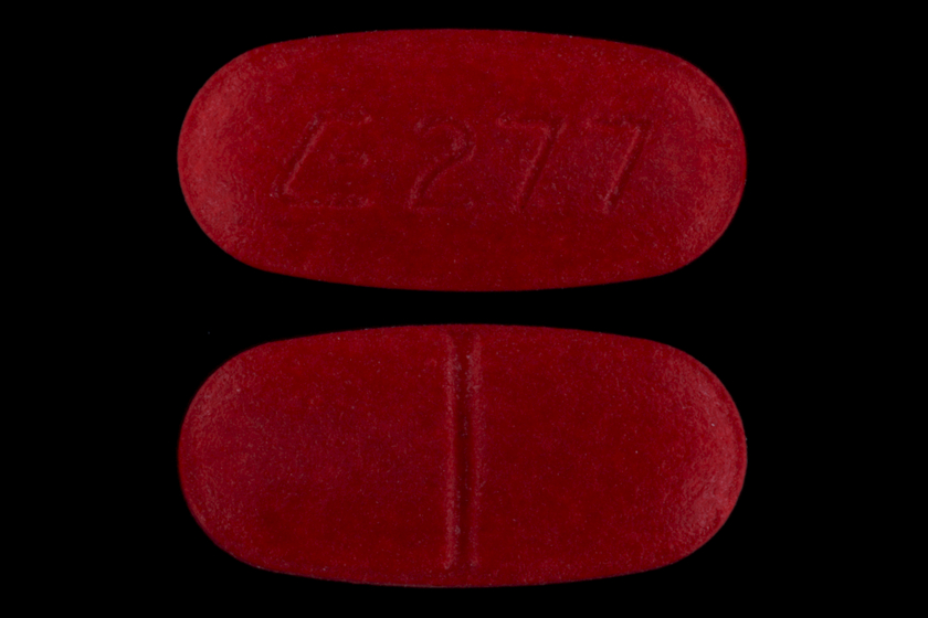 *Drug Name: Benazepril hydrochloride 20 MG / Hydrochlorothiazide 25 MG Oral Tablet Ingredient(s): Benazepril mixture with Hydrochlorothiazide Drug Label Imprint: E277 Color(s): Red Shape: Oval *Size (mm): 13.00 *Score: 2 Inactive Ingredient(s): ShowHide colloidal silicon dioxide / crospovidone / fd&c re... colloidal silicon dioxide / crospovidone / fd&c red no. 40 / hypromelloses / lactose monohydrate / poloxamer 188 / polyethylene glycol / polysorbate 80 / titanium dioxide / zinc stearate / hydrogenated castor oil Drug Label Author: Eon Labs, Inc. DEA Schedule: Non-scheduled